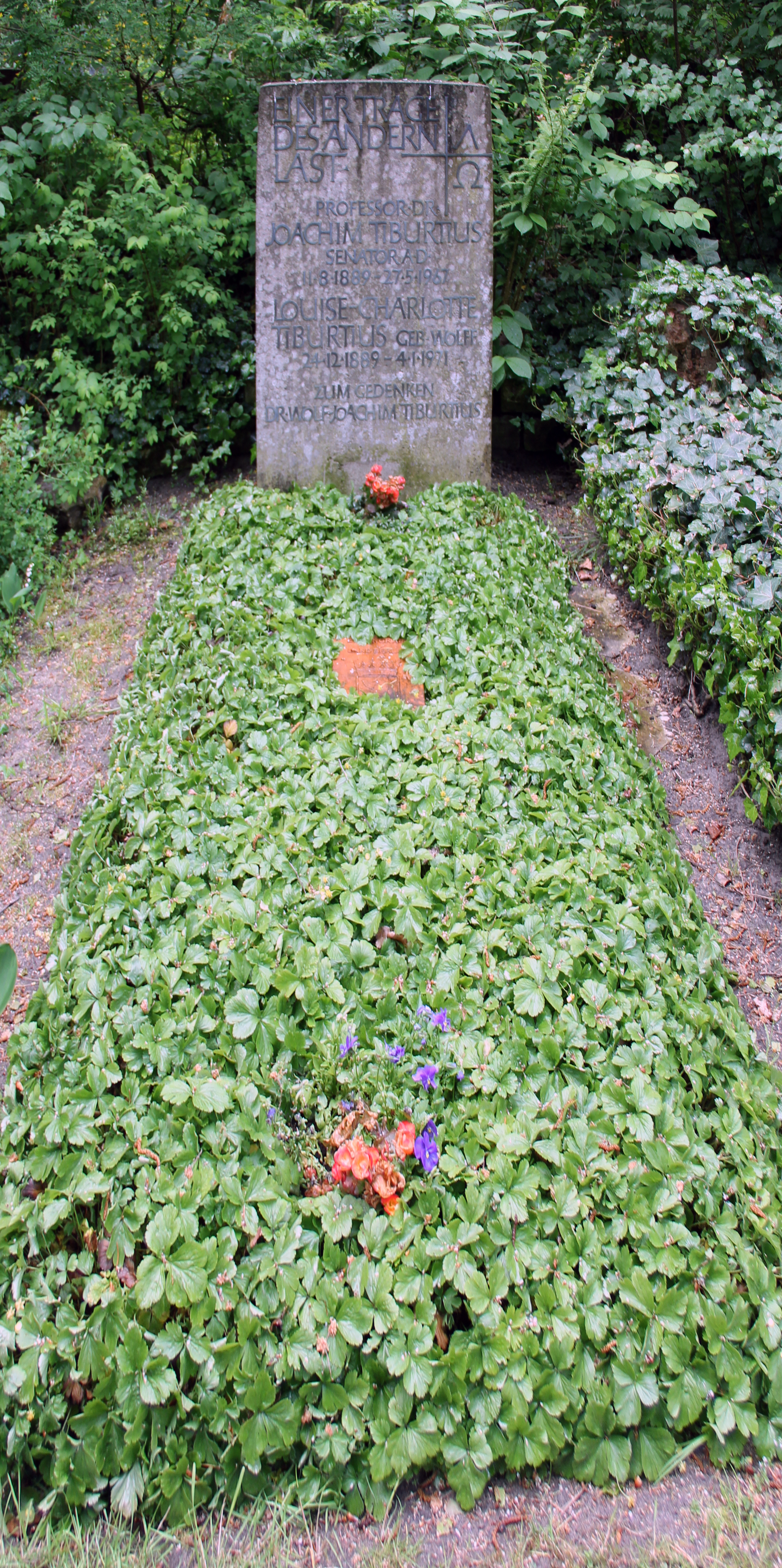 Grave of honor, Joachim Tiburtius, Moltkestraße 41, Berlin-Lichterfelde, Germany